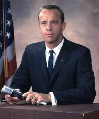 Portrait of astronaut Alan B. Shepard Jr.